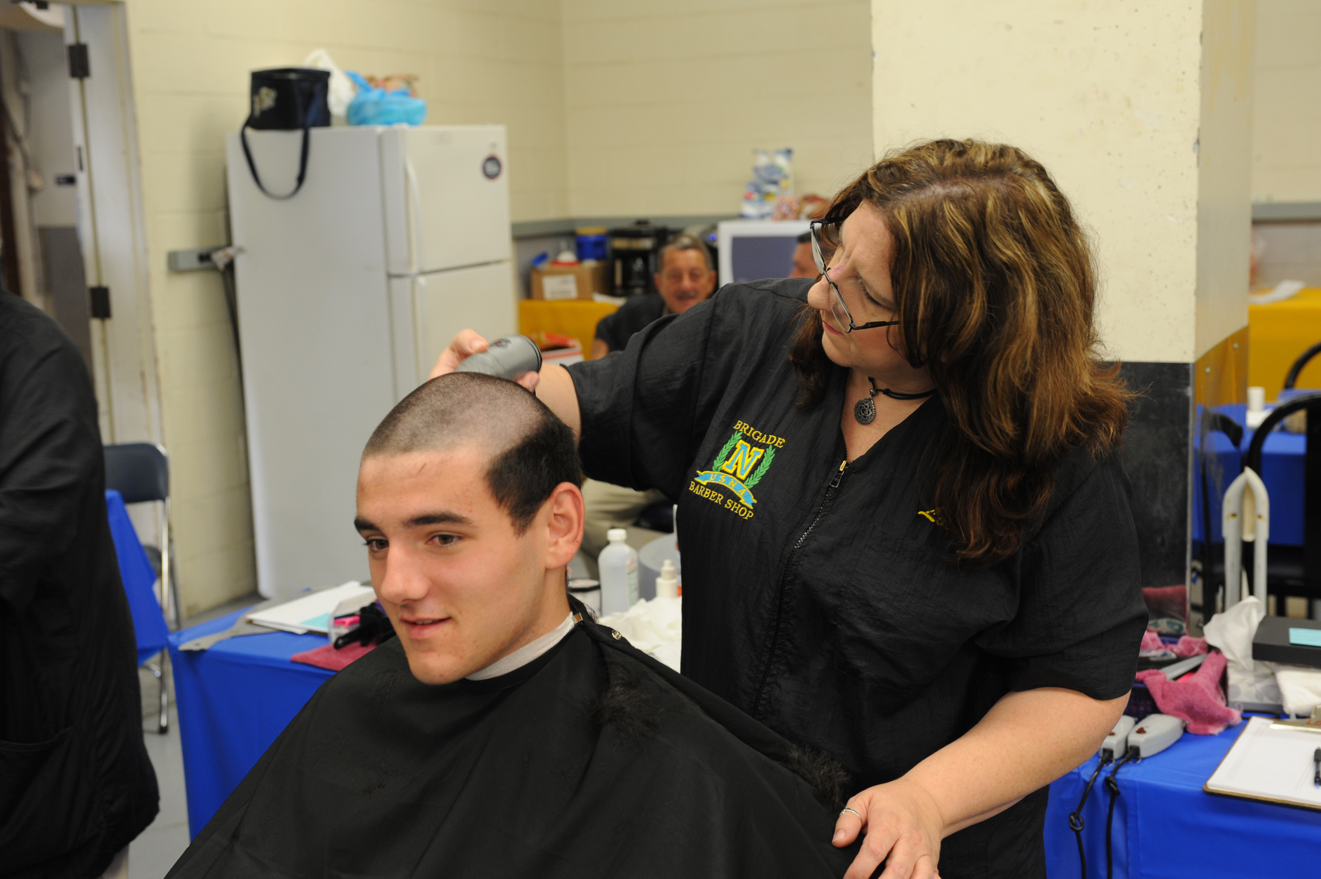 150701-N-TO519-054 ANNAPOLIS, Md. (July 1, 2015) Tim Corcio, member of the U.S. Naval Academy's incoming Class of 2019, gets his first military haircut on Induction Day. Induction Day marks the beginning of Plebe Summer, the arduous six-week indoctrination that transitions civilian students to military life. (U.S. Navy photo by Mass Communications Specialist 2nd Class Nathan Wilkes/RELEASED) Unit: Navy Media Content Services DVIDS Tags: NMCS; DVIDS Bulk Import